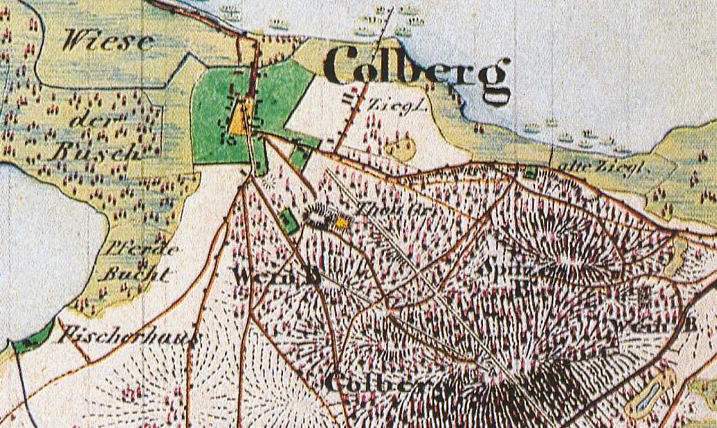 Kolberg, Gem.Heidesee, Lkr. Dahme-Spreewald, Brandenburg, Germany, detail from the Urmesstischblatt Sheet 3748 Friedersdorf, drawn in 1841